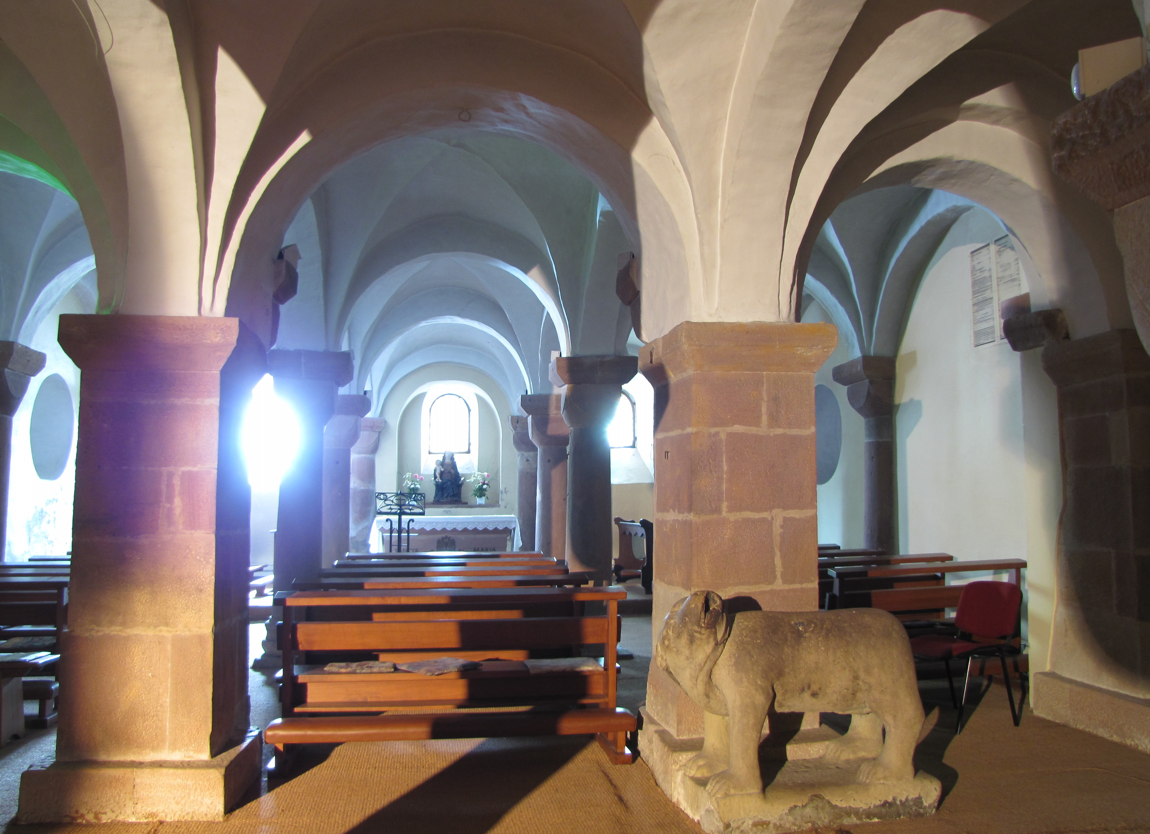 Alsace, Bas-Rhin, Andlau, Crypte de l'Église Saints-Pierre-et-Paul dite Sainte-Richarde (PA00084587, IA00115010). Statue de l'ourse (XIVe-XVe). This object is inscrit Monument Historique in the base Palissy, database of the French furniture patrimony of the French ministry of culture, under the references PM67001524 and IM67005751.